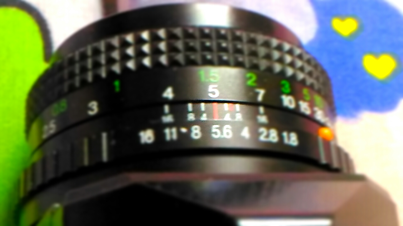 Focal Lengths and Apertures on Cosina Lens